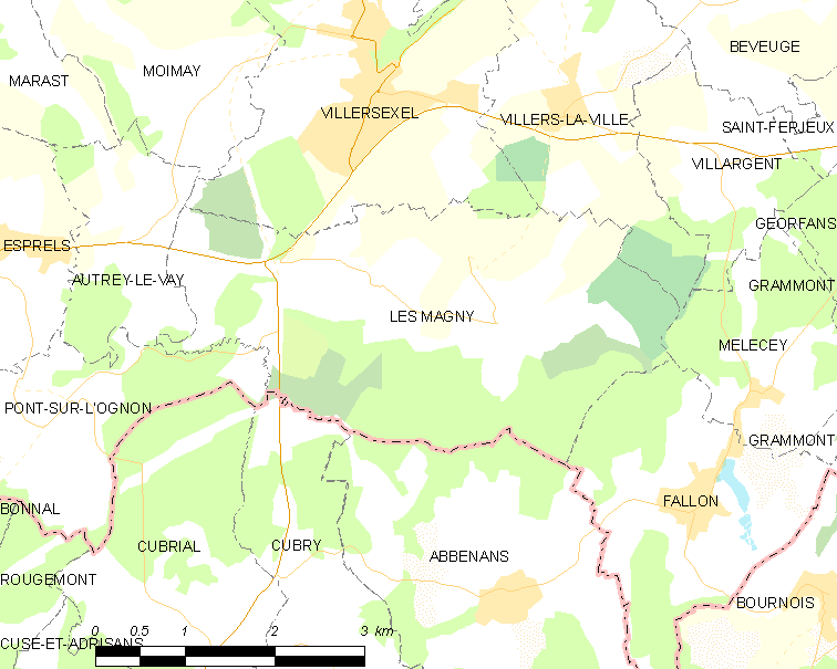 Map of French municipality